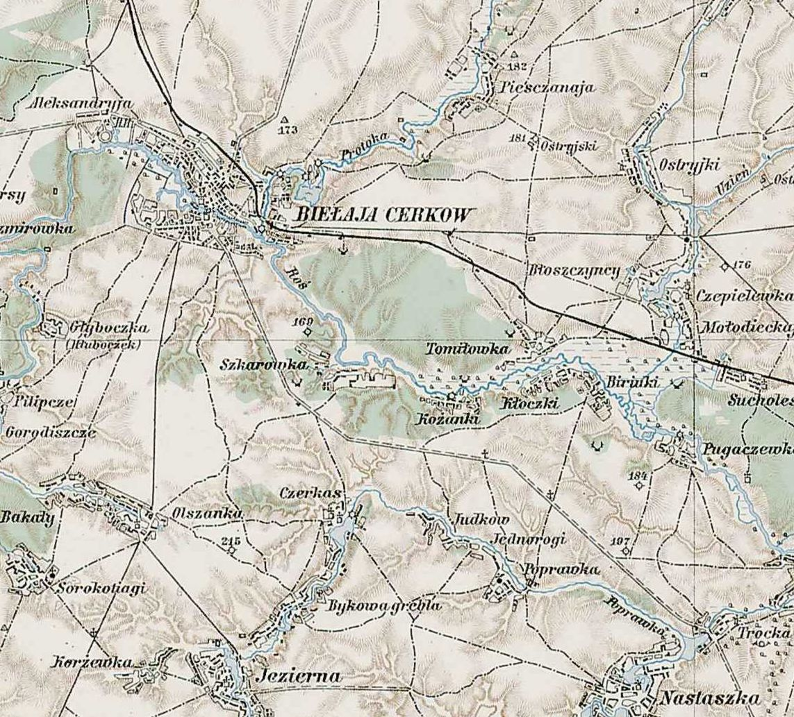 Biała Cerkiew and surrounding villages in 1889